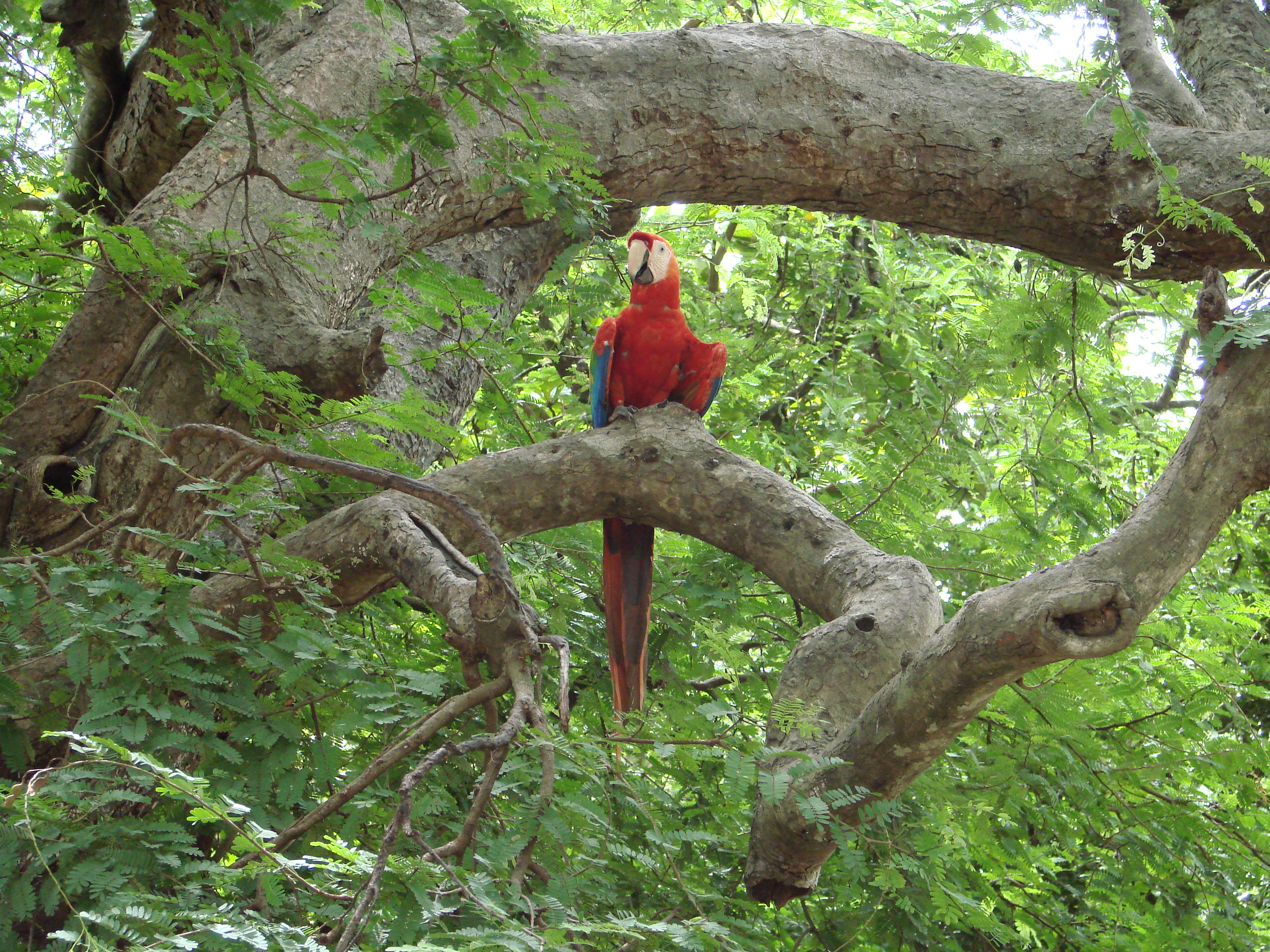 Ara macao (Guacamayo Rojo), fotografíado cerca de Nicoya, Costa Rica